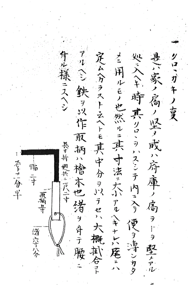 Page from the Ninpiden, a manual of ninjutsu dating 1655